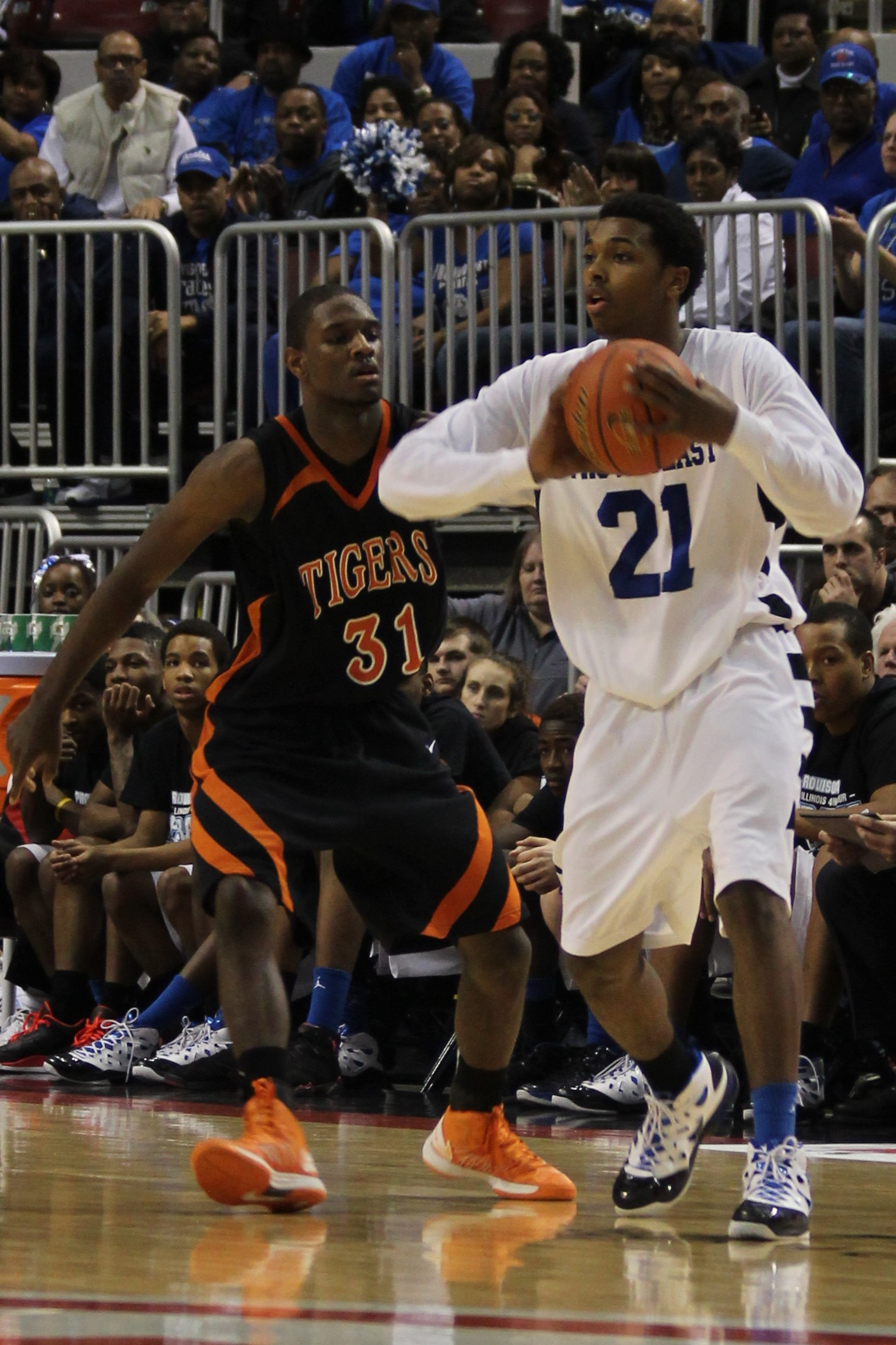 Sterling Brown and Garret Covington in the 2013 IHSA 4A consolation game